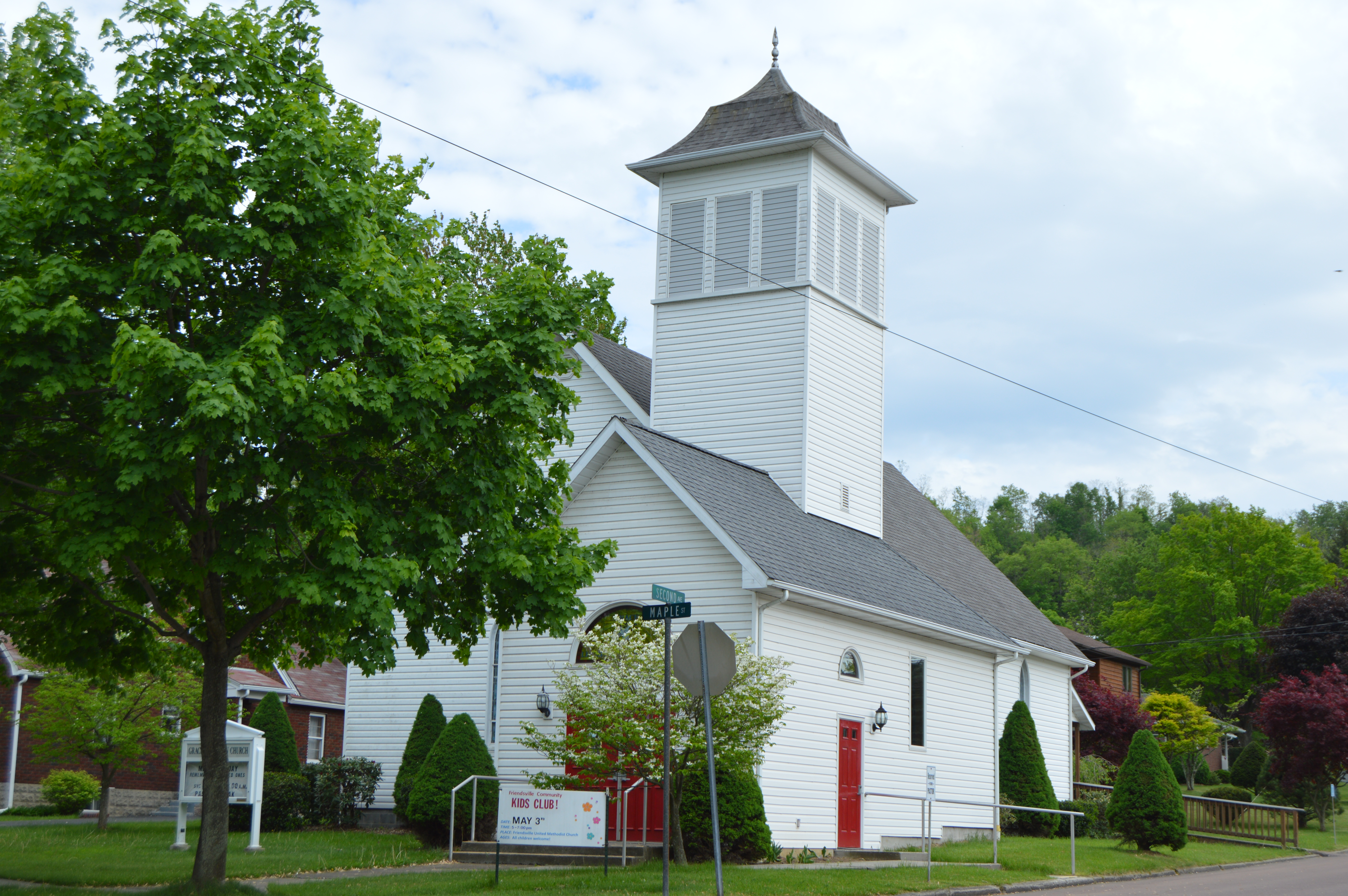 Front and western side of Grace Lutheran Church, located on the southeastern corner of the junction of Second and Maple Streets in Friendsville, Maryland, United States.